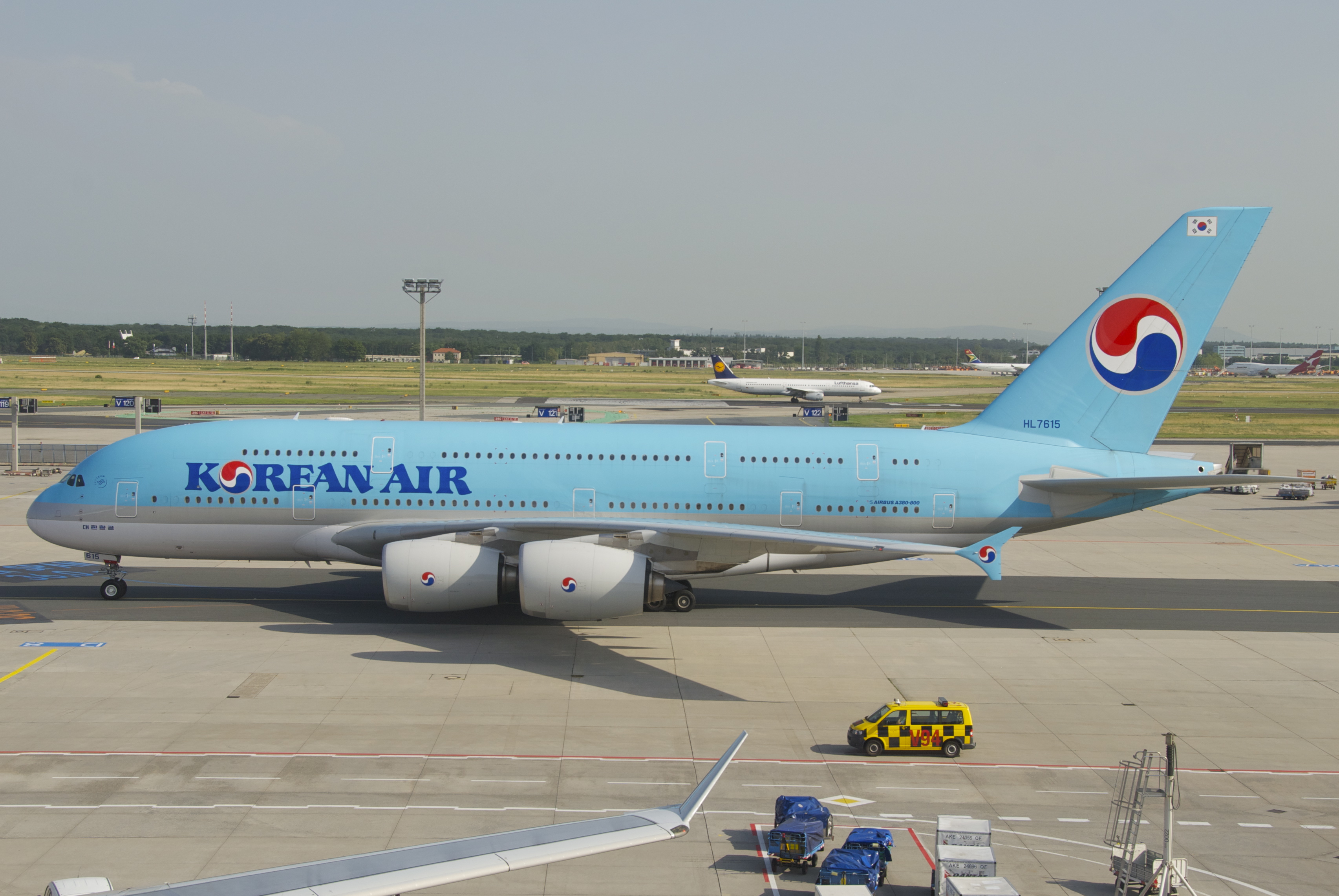 Korean Air Airbus A380-861; HL7615@FRA;30.06.2012/658dv